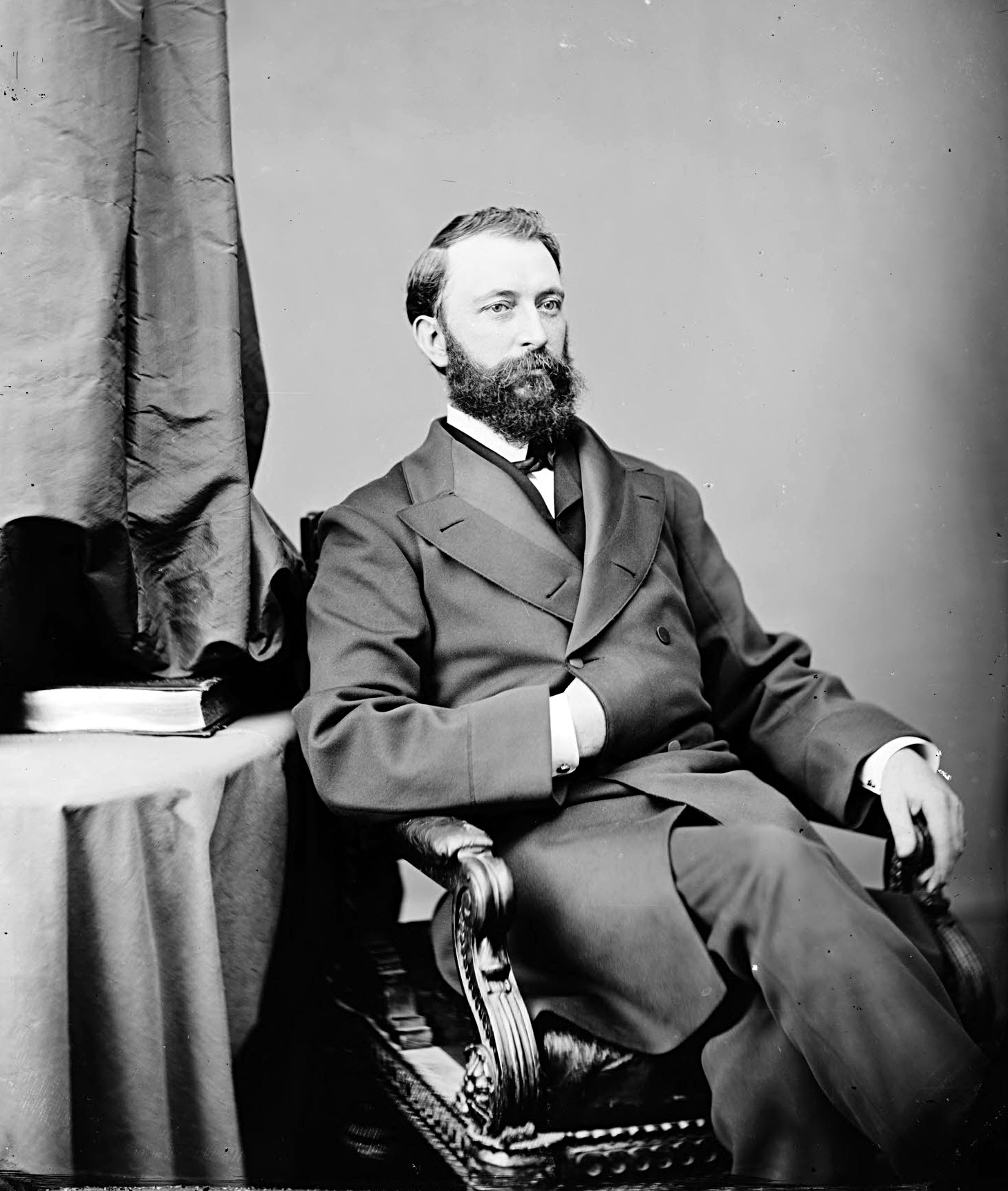 Congressional portrait of William Farrand Prosser, Representative from Tennessee.